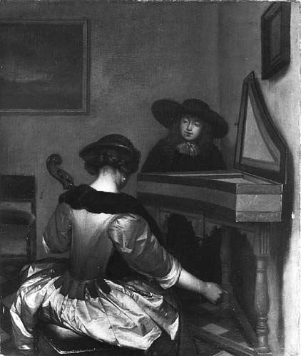 Couple making music